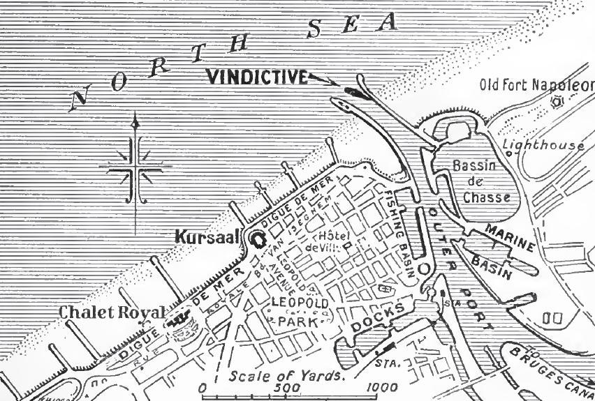 Diagram of Ostend harbour and HMS Vindictive, 1918